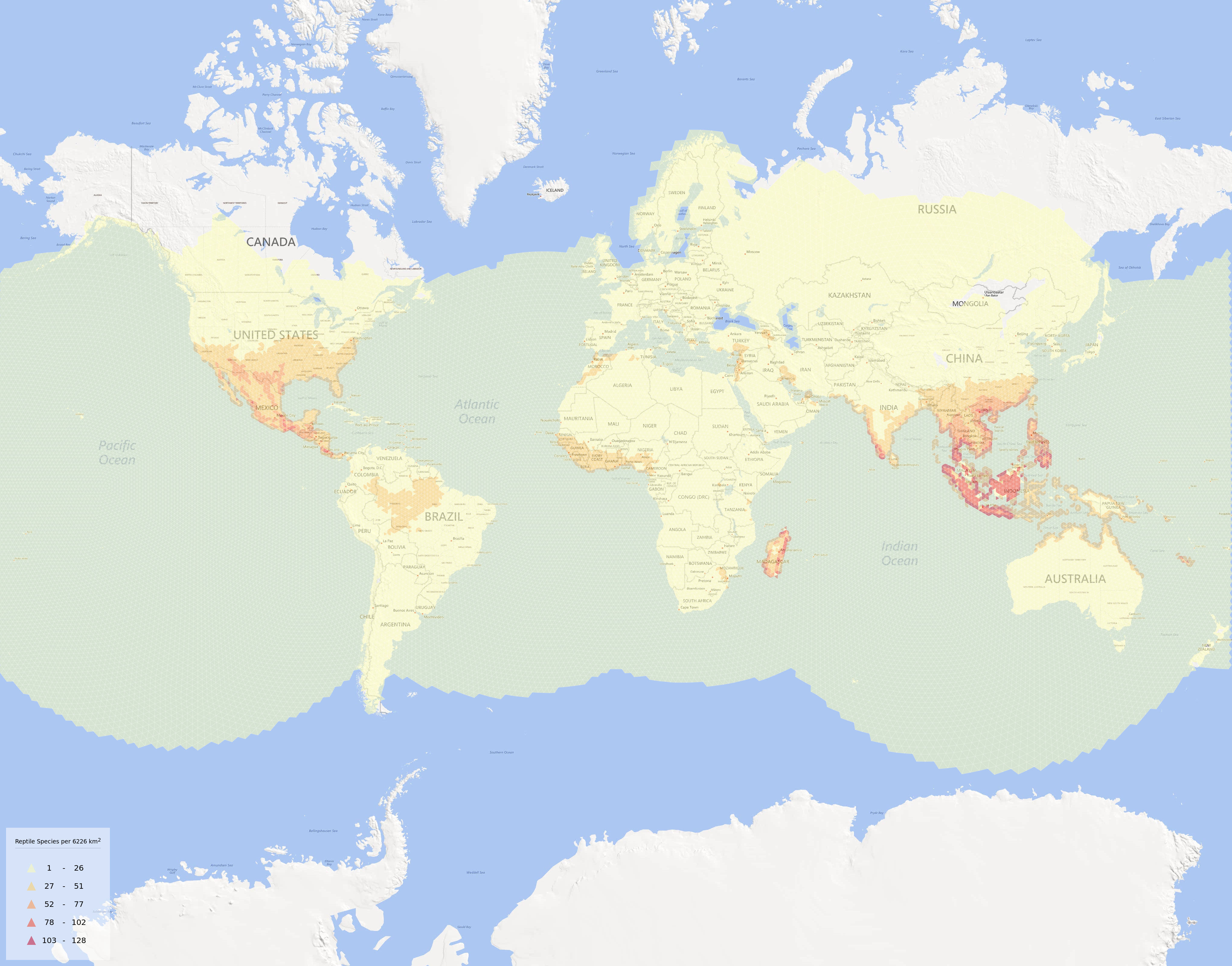 Global Distribution of 3809 Reptile Species (Source: IUCN Red List Reptiles, Sea Snakes Datasets)